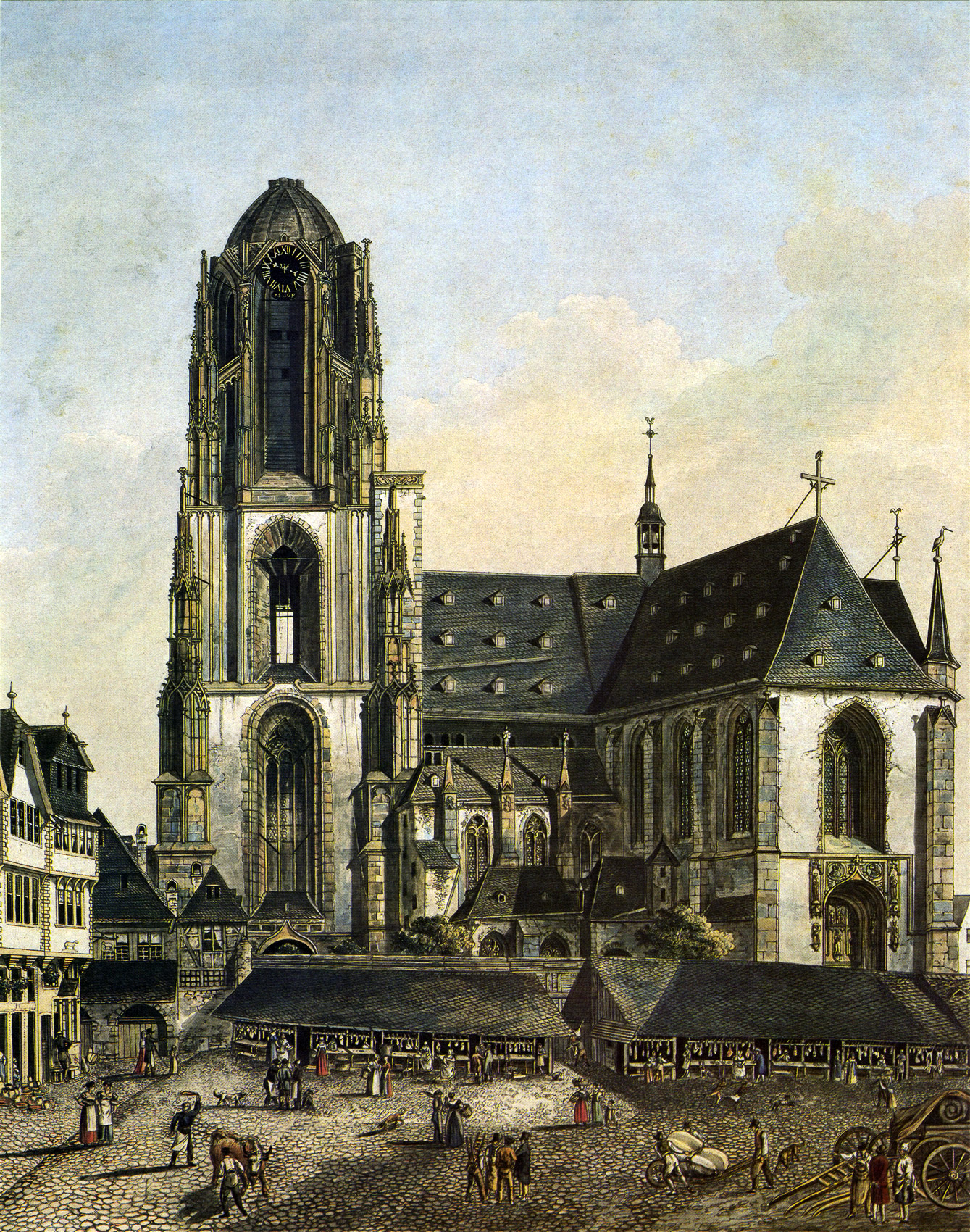 Frankfurt on the Main: Cathedral as seen from the south